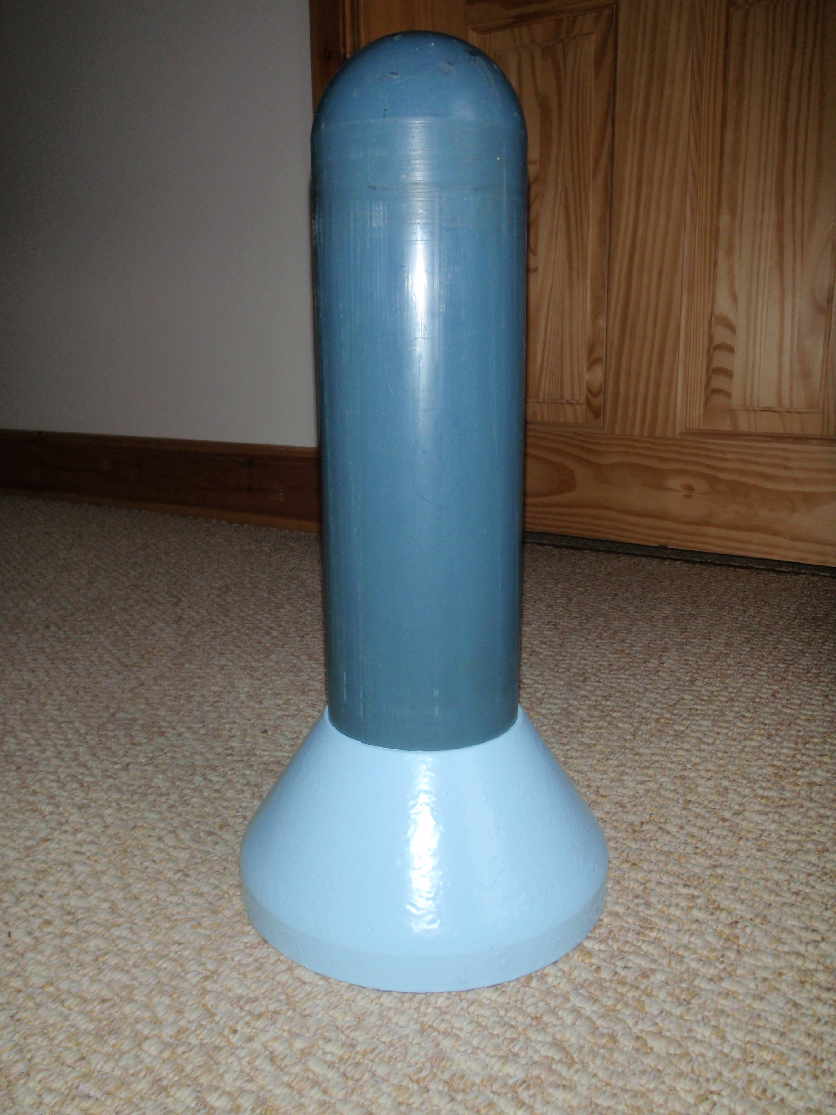 Photo showing the FSM Dome.